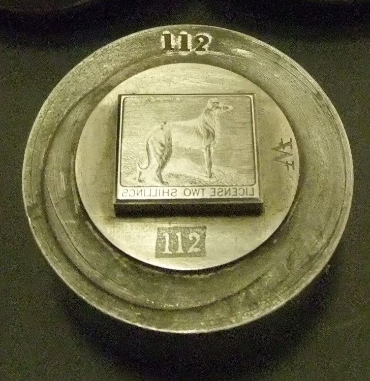 A photograph of the steel letterpress die for a 2 shilling dog license stamp issued in Ireland from 1865-1928. Die held in the Board of Inland Revenue Stamping Department Archive, Philatelic Collections, British Library; digital image provided by the Philatelic Collections, British Library.